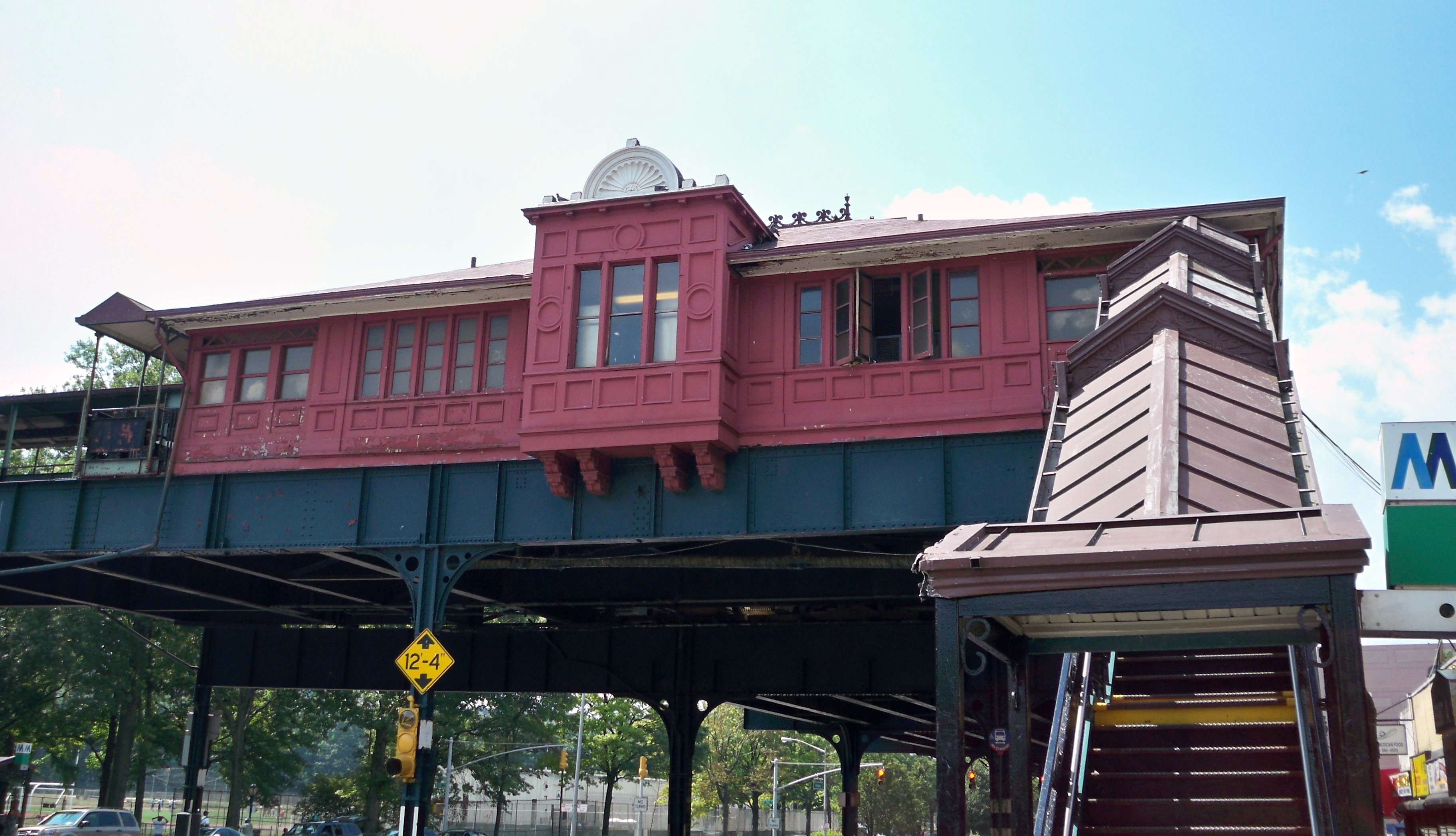 242nd Street subway station in New York City.